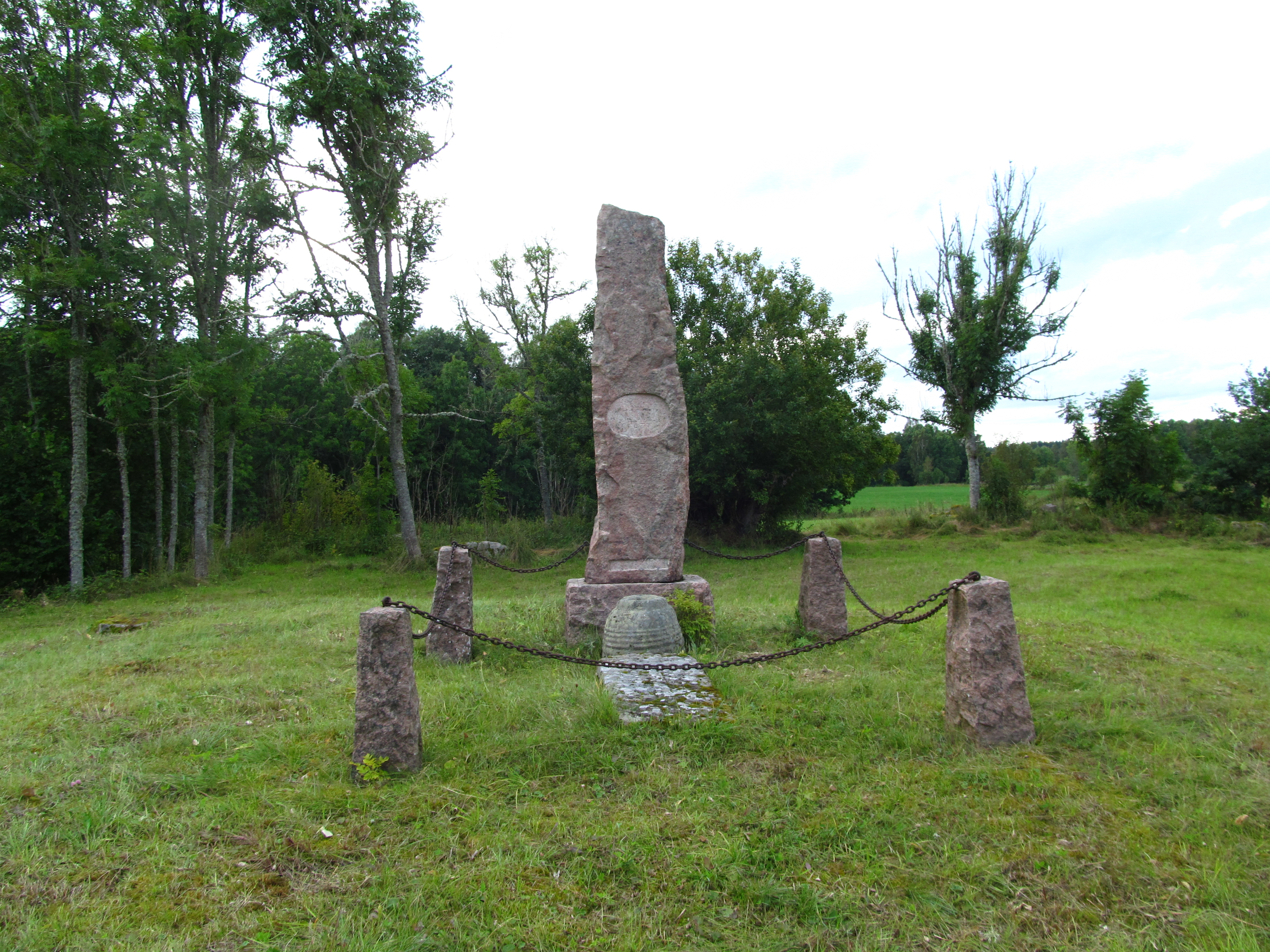 Memorial of the old Vist church, south of Floby in Falköping Municipality, Sweden.